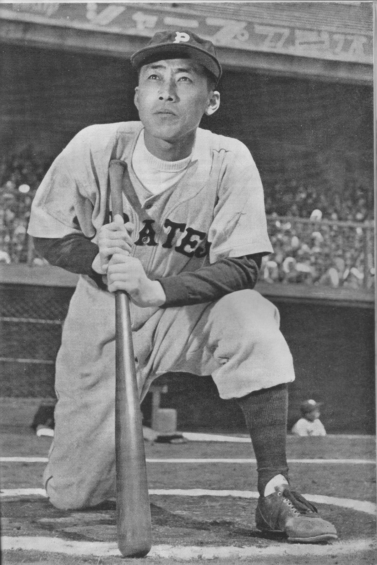 Yuko Minamimura. taken in 1950.